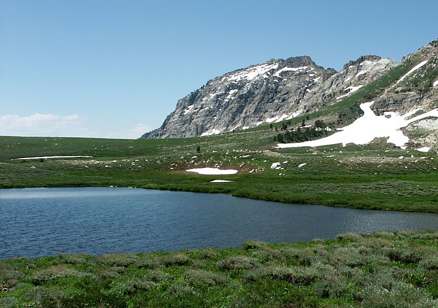 The largest of the Soldier Lakes, in the Ruby Mountains of Nevada, looking south towards the Ruby Crest and Green Mountain.